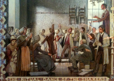 The Ritual Dance of the Shakers, Shaker Historical Society